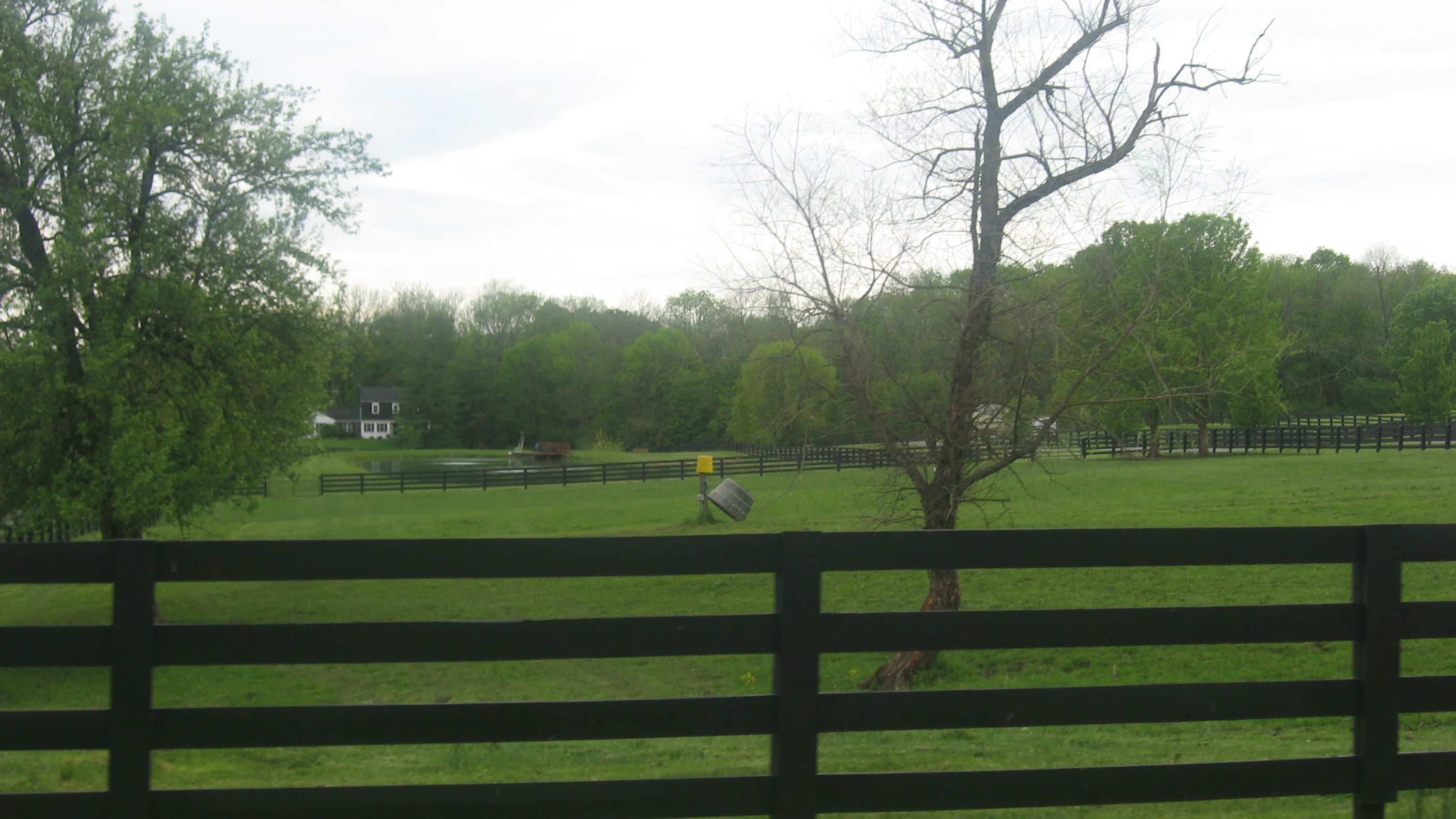 Looking toward the Bone Mound II from Red Oak Road northwest of Oregonia in Wayne Township, Warren County, Ohio, United States. As an important archaeological site, it is listed on the National Register of Historic Places.